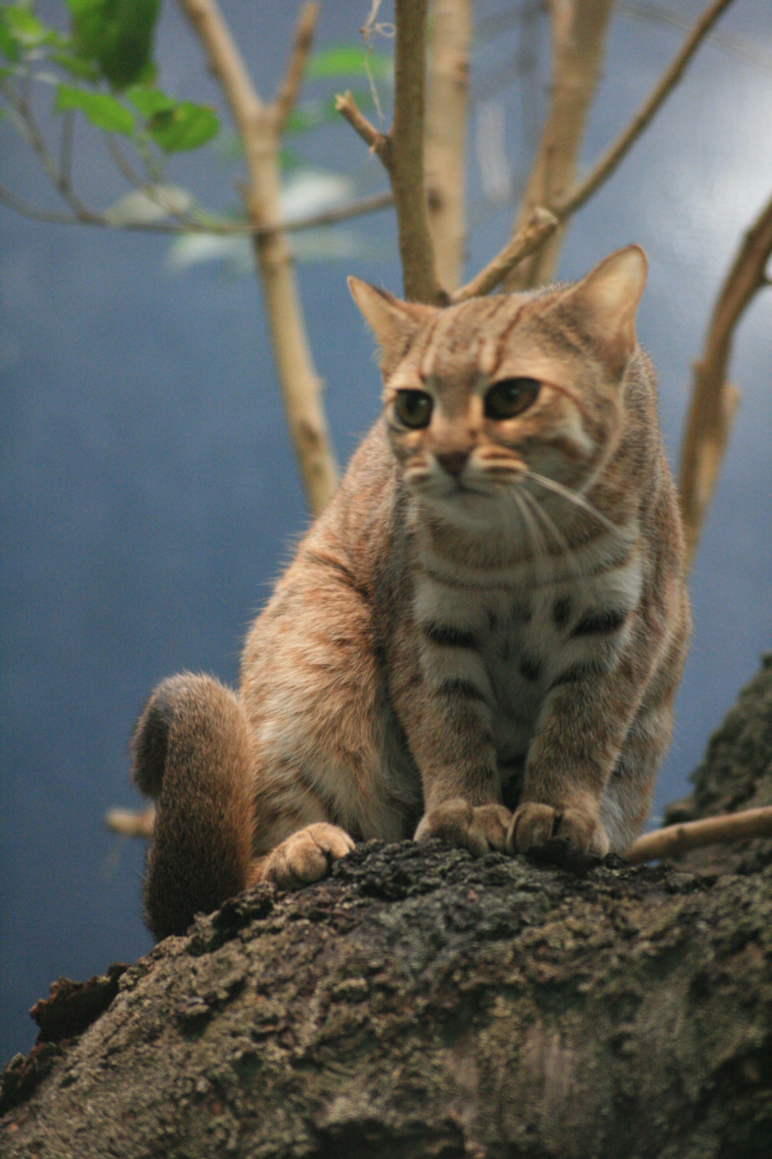 Rusty-spotted Cat (Prionailurus rubiginosus)